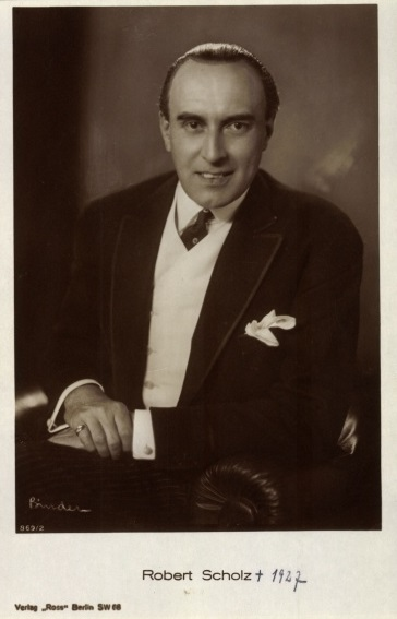 Portrait of German actor Robert Scholz (1886–1927) by Alexander Binder. Distributed by Ross-Verlag.